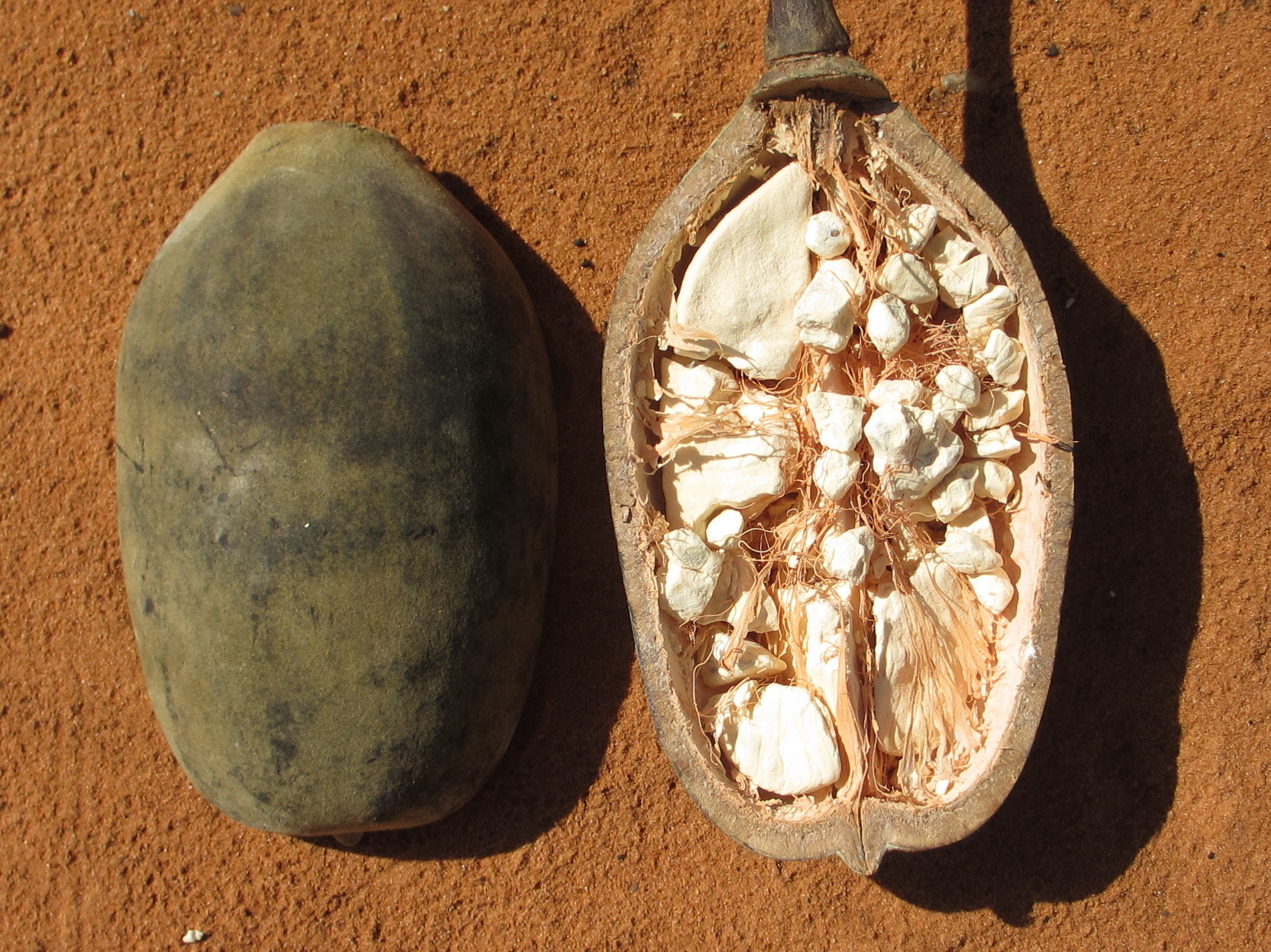 This baobab fruit was bought in the market of Pemba town, northern Mozambique.